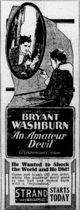 Newspaper advertisement for the American comedy film An Amateur Devil (1920) with Bryant Washburn, on page 11 of the May 19, 1921 Duluth Herald.